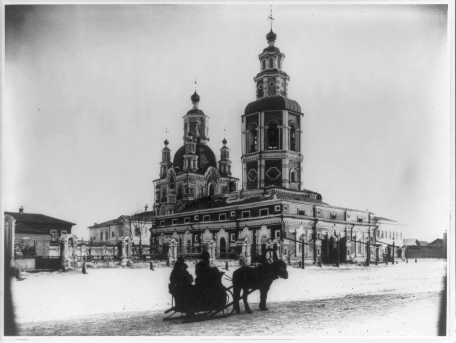 Title: Krasnoyarsk - church Physical description: 1 photographic print : gelatin silver ; 8 x 10 in. or smaller. Notes: Published as halftone in Harper's Weekly, 1897, p. 856.; Forms part of: Jackson, William Henry, 1843-1942. World's Transportation Commission photograph collection (Library of Congress).; Gift; Colorado Historical Society; 1949.; Photographic print made by LC from Jackson's vintage film negative.